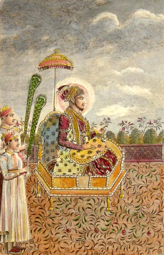 "Shah Allum the Present Emperor of Hindostan," a steel engraving from the 1790's (with modern hand coloring)